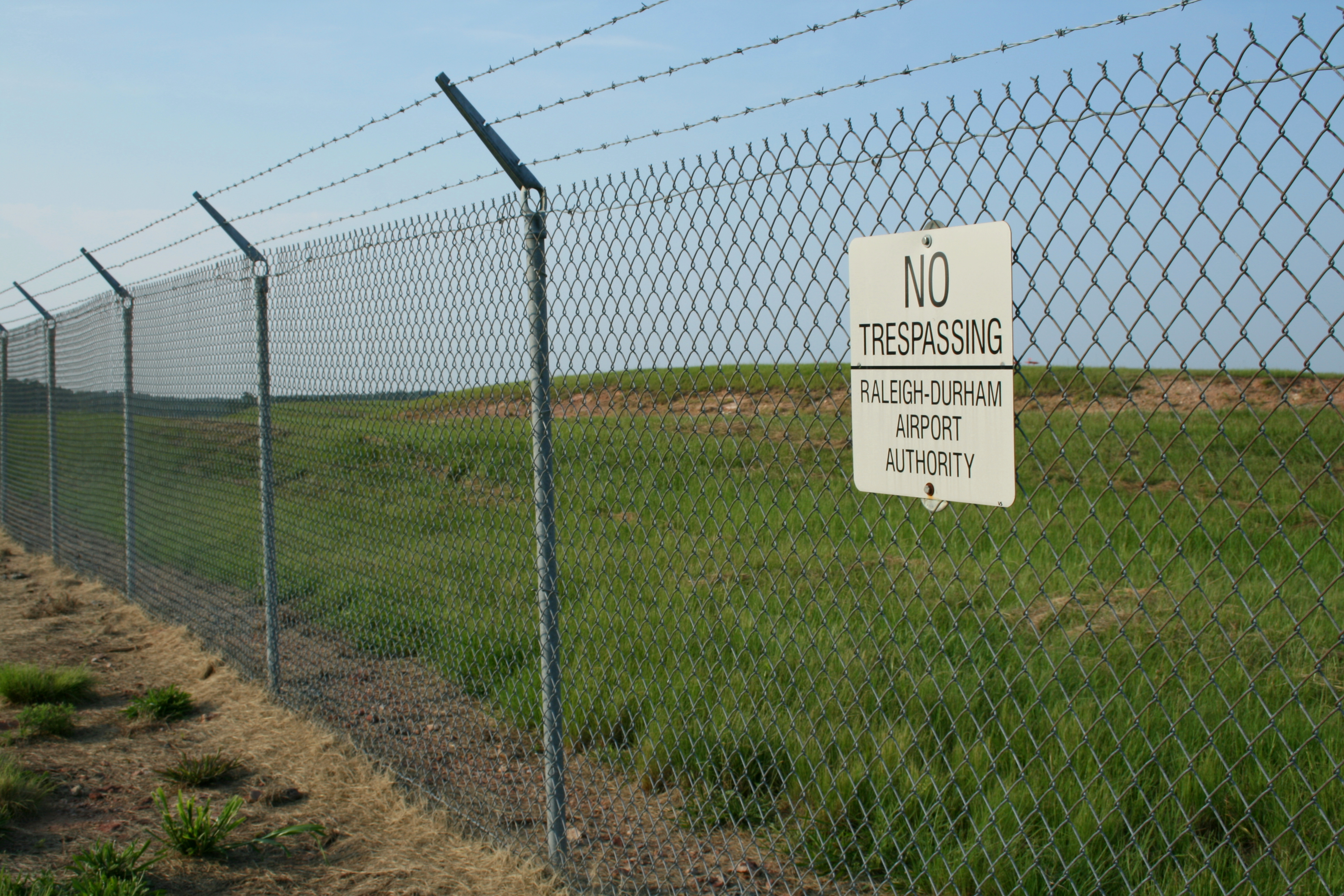 "No Trespassing" sign on the chain link barbed wire fence surrounding Raleigh-Durham International Airport in Wake County, North Carolina. This is on Airport Boulevard, near the beginning of runway 5L.